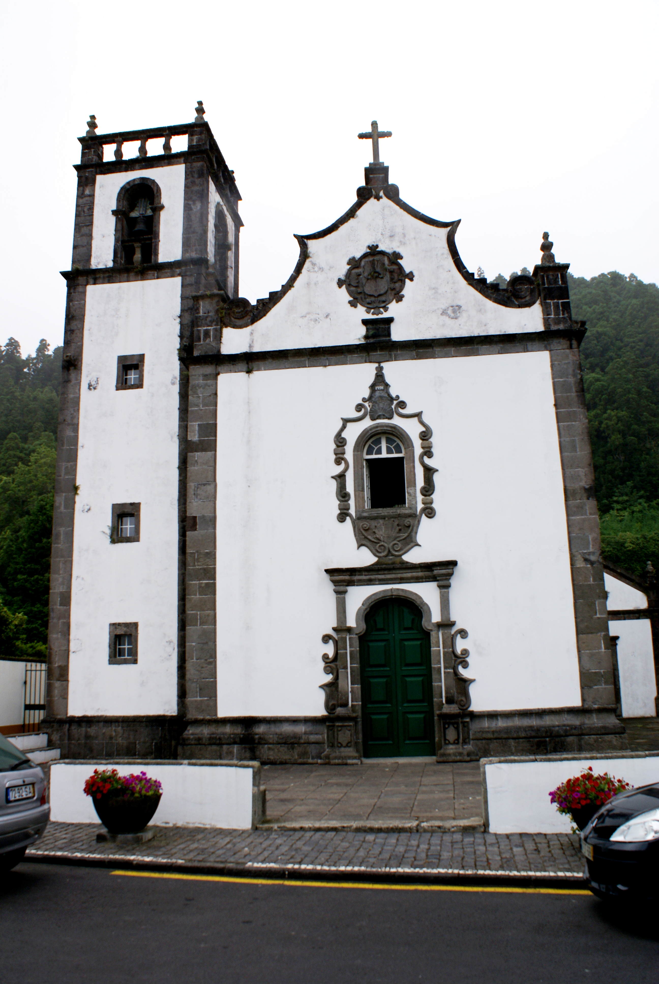 Front façade of the Church of Santa Ana, Furnas, Povoação, São Miguel (Azores), Portugal